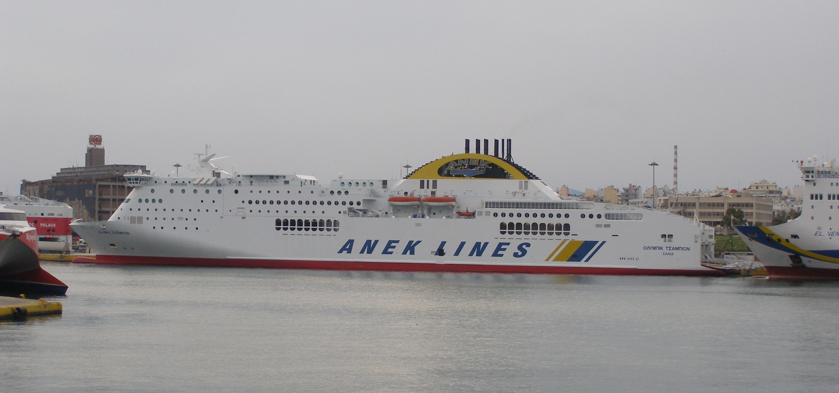 Piraeus - Olympic Champion